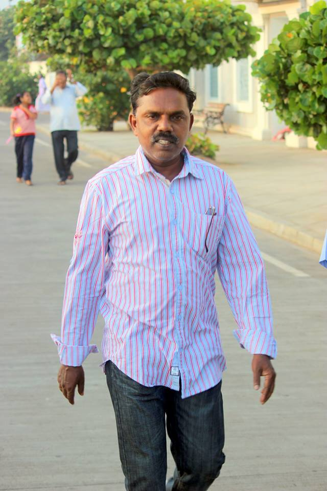 கவிஞர் மு.பாலசுப்பிரமணியன்